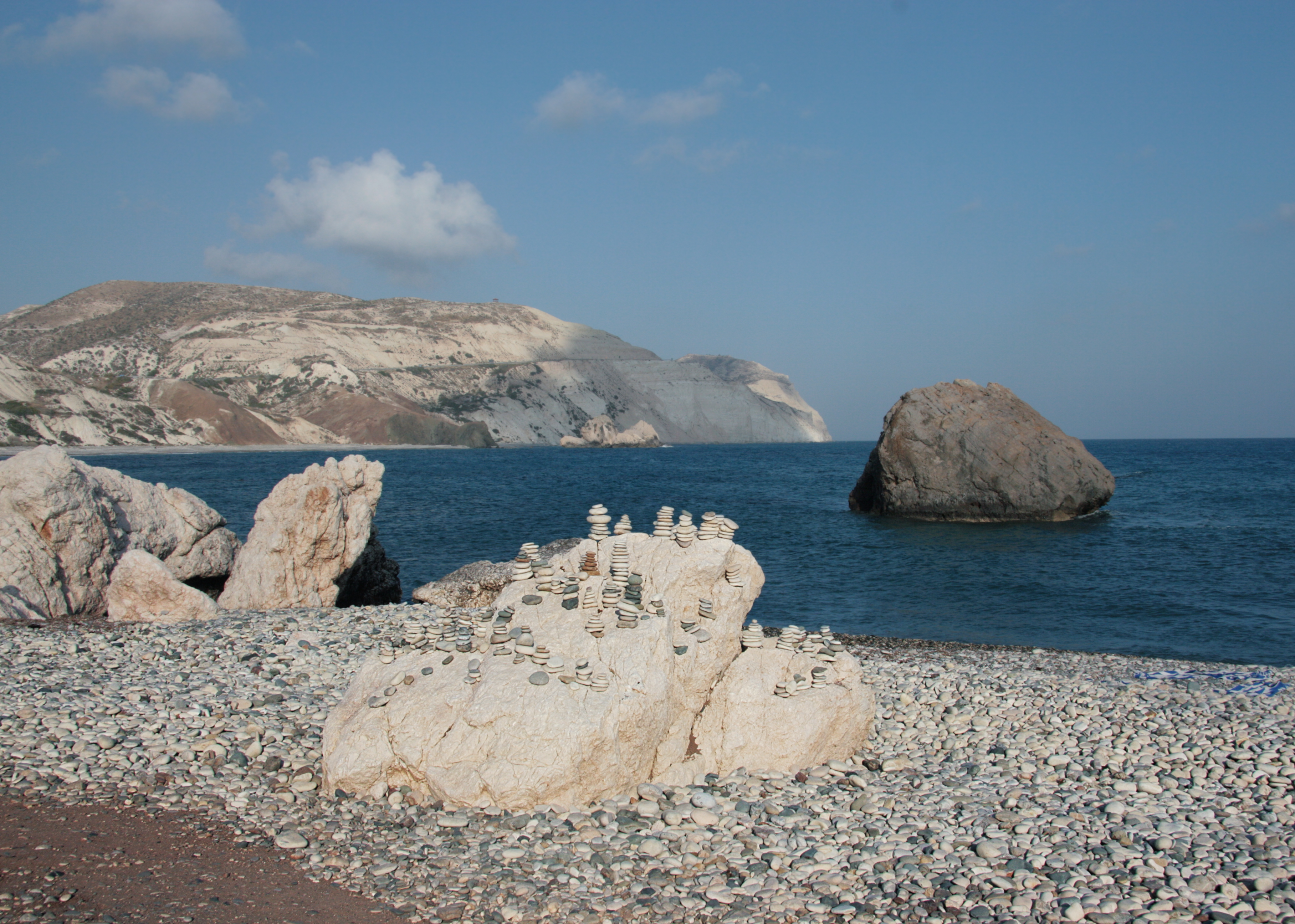 Aphrodite's Rock (Petra tou Romiou) on the coast in Paphos, western Cyprus.